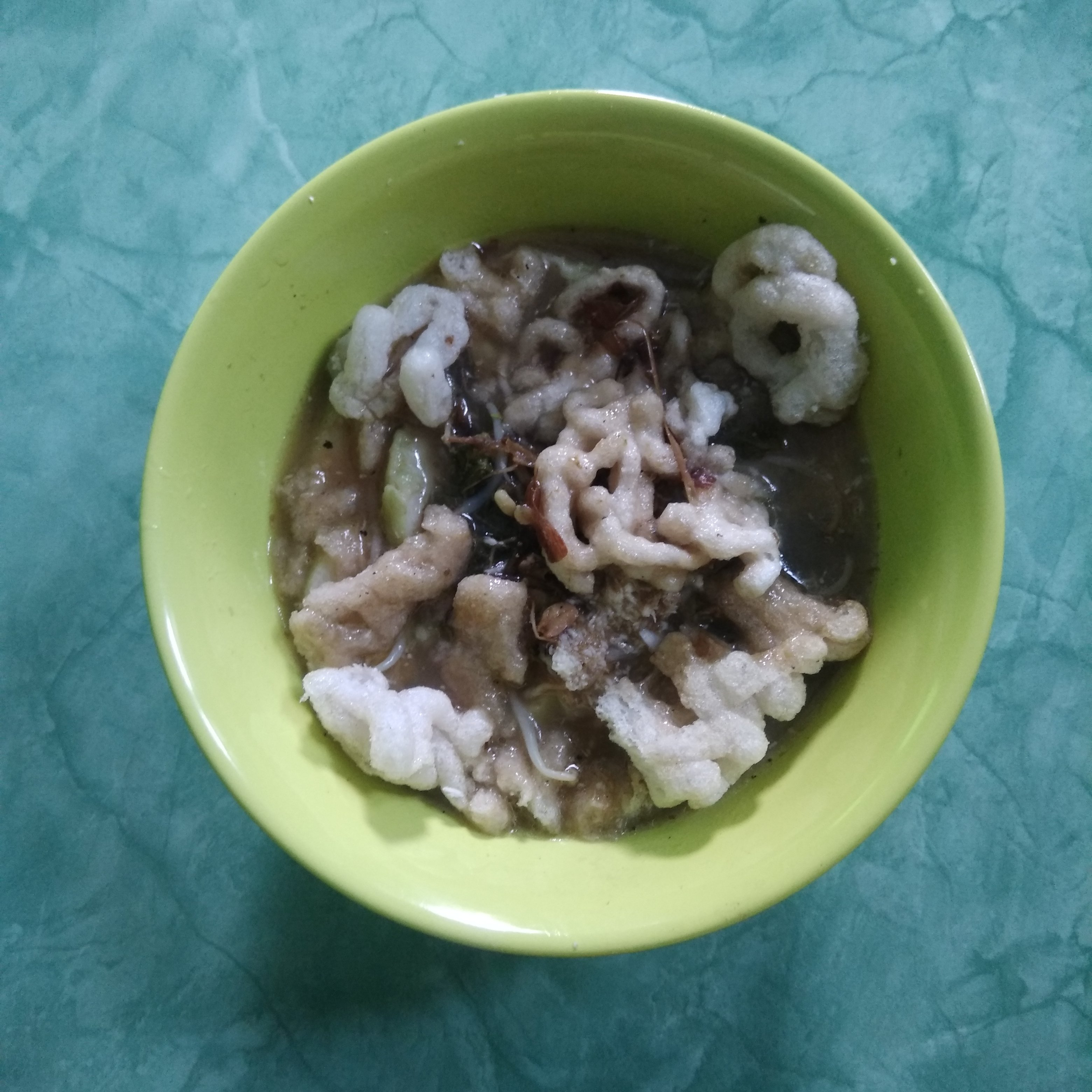 Docang Jawa: ꦢꦺꦴꦕꦁ